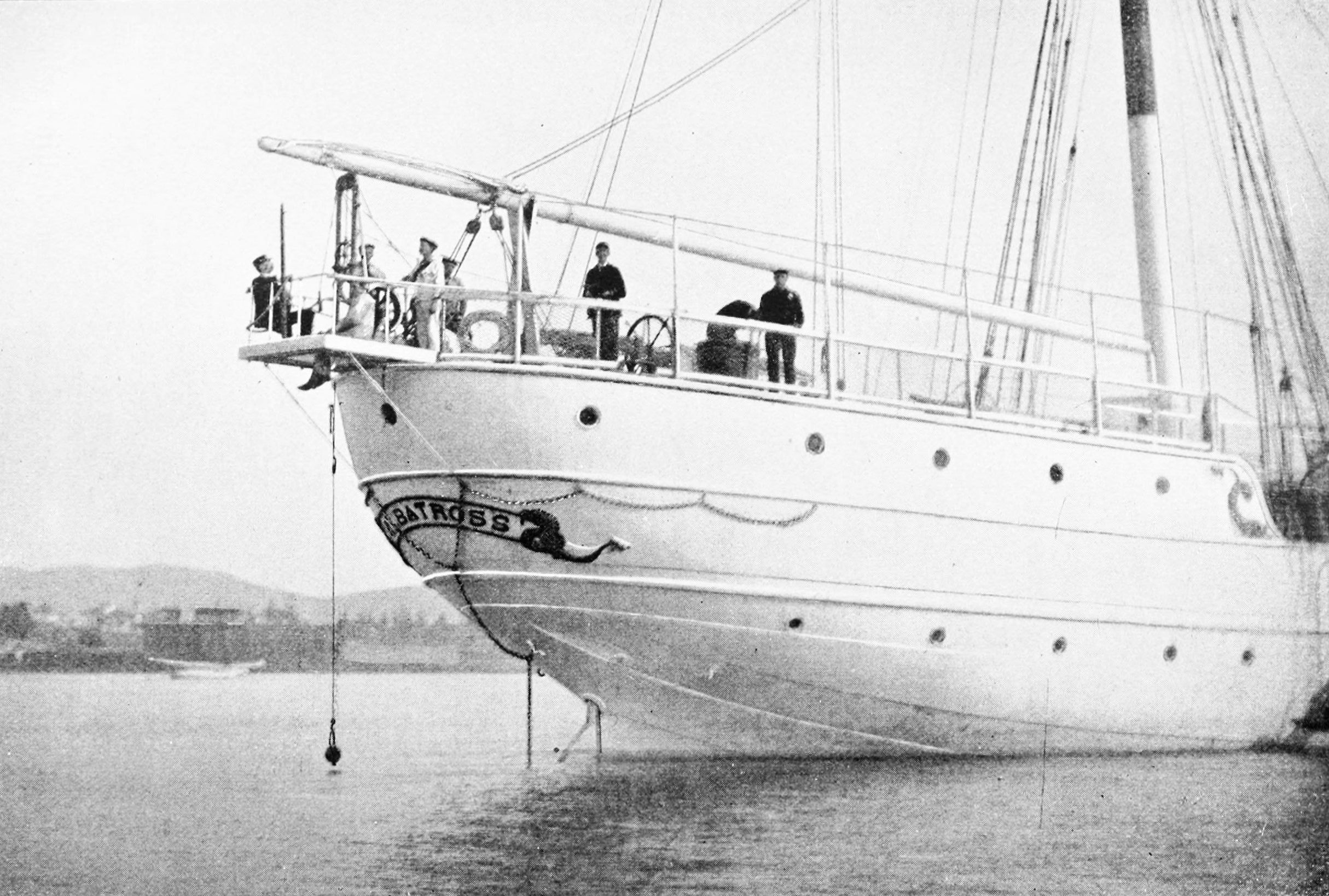 About to sound from the U.S. Fish Commission steamer Albatross.